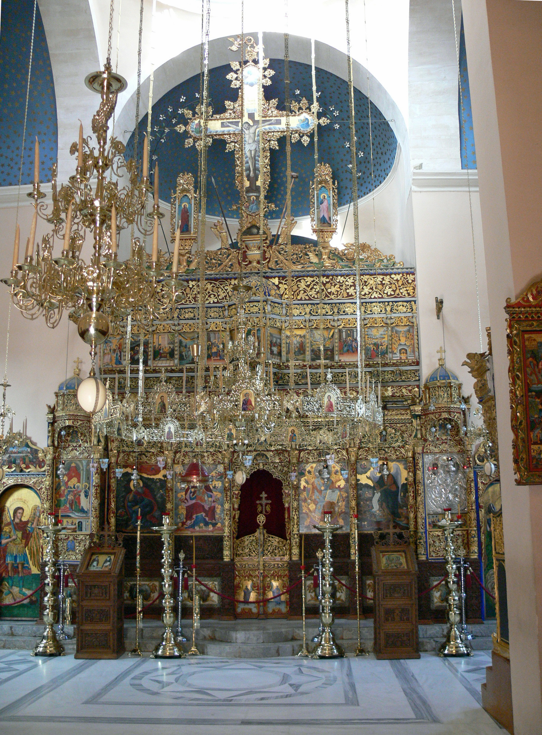 Holy Trinity Monastery, Akrotiri ( Crete ). Monastery church - Interior: Ikonostasis.